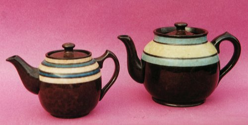 Two examples of Sadler "Brown Betty" teapots